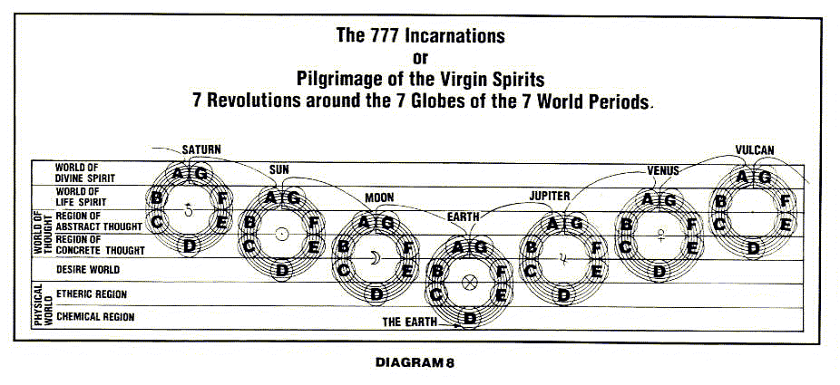 Diagram 8. The Seven Worlds, Seven Globes and Seven Periods. Illustration of Max Heindel's Book The Rosicrucian Cosmo-Conception.